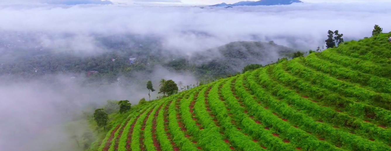 A beautiful viewpoint in Manjeri